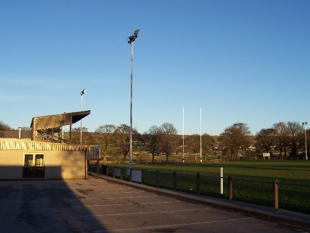 Wharfedale RUFC. The shrine for all things rugby in the Yorkshire Dales